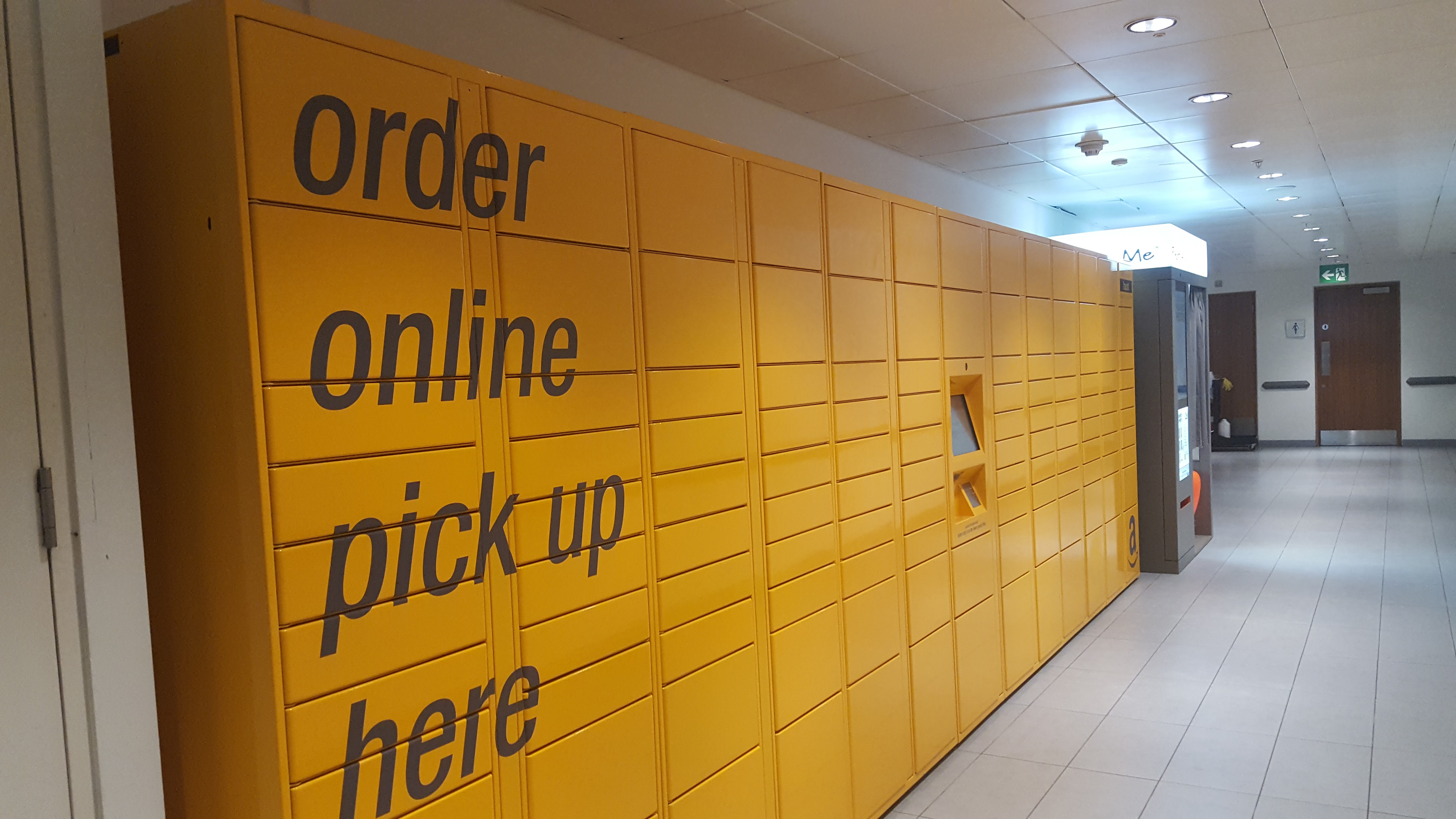 Amazon Locker "Faust" on the first floor of One New Change, in the corridor to the toilets.